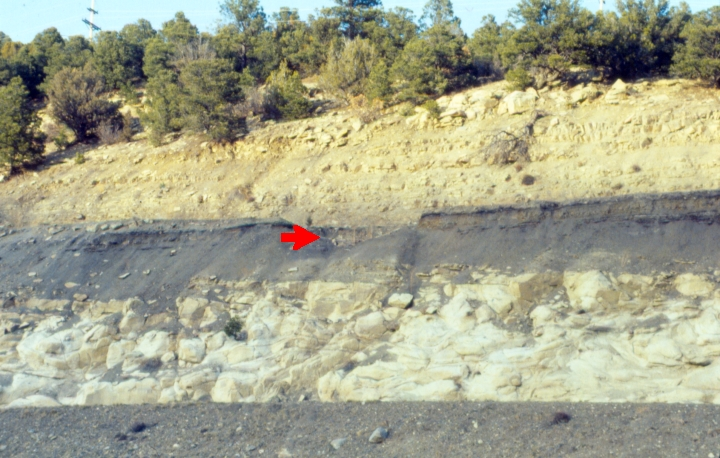 K-T boundary (red arrow) along Interstate 25, Raton Pass, Colorado